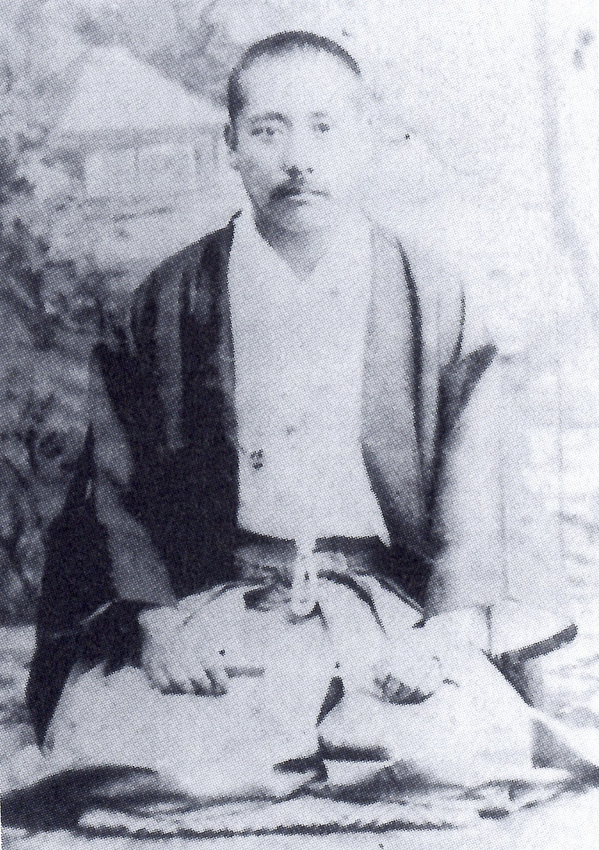 Portrait of Sakai Tadaakira.